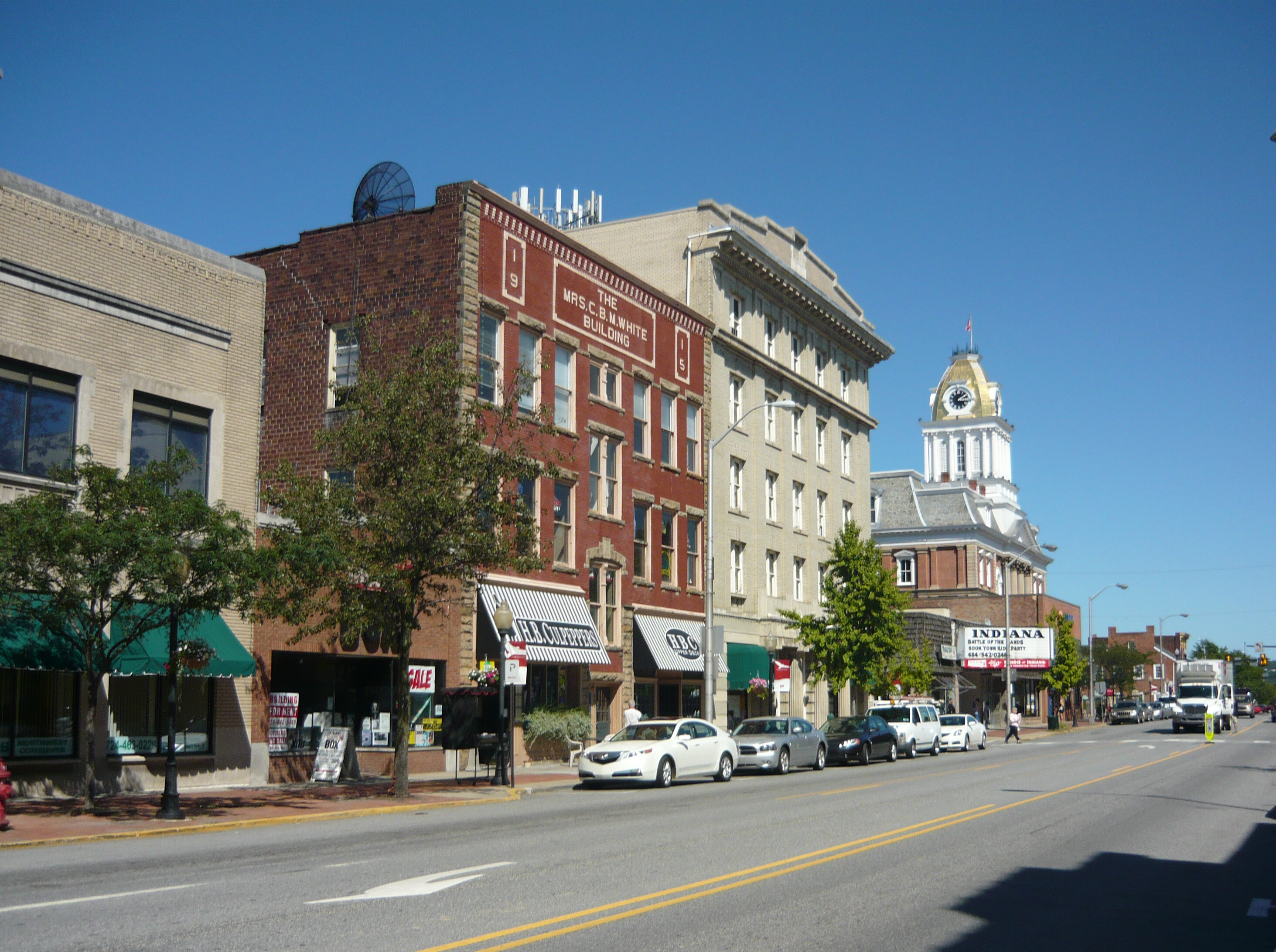 Business district of (Borough of) Indiana, Pennsylvania. Looking eastward on Philadelphia Street.